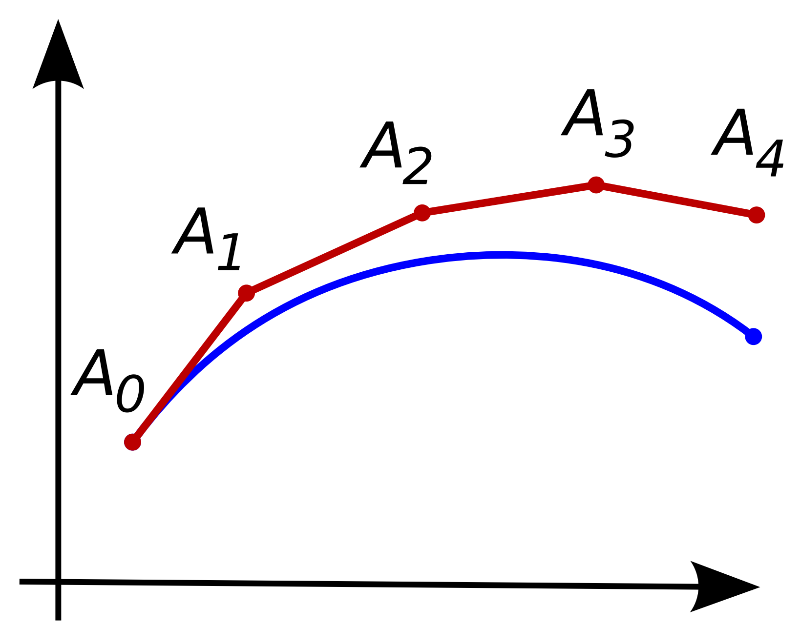 Illustration of the Euler method